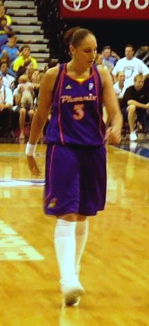 Created by user and released into the public domain. Catégory:Basketball players from the United States